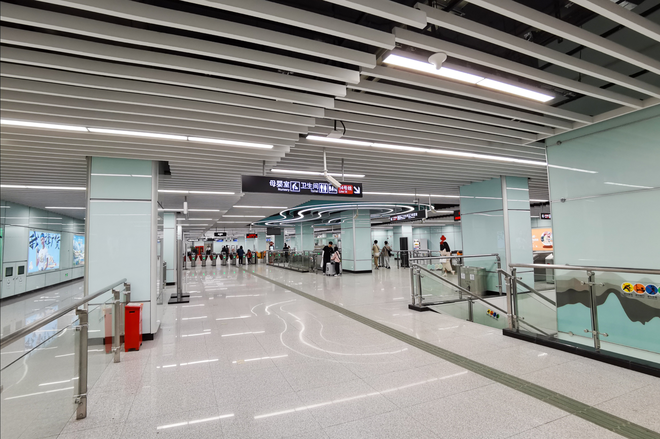 广州地铁白云东平站